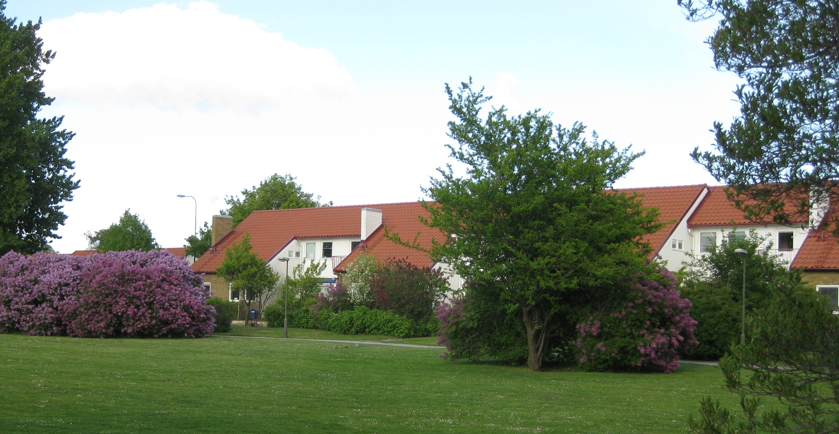 Friluftsstaden, living area in Malmö, Sweden